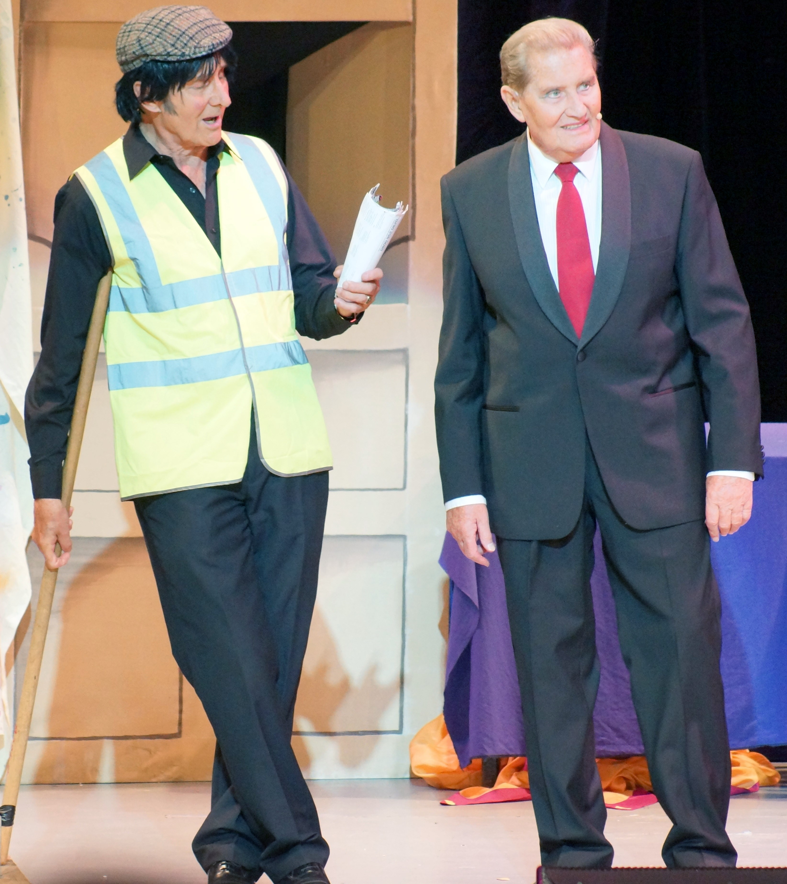 Jimmy and Brian Elliott, aka. The Patton Brothers, on stage at the Futurist Theatre in Scarborough, 29 August 2013